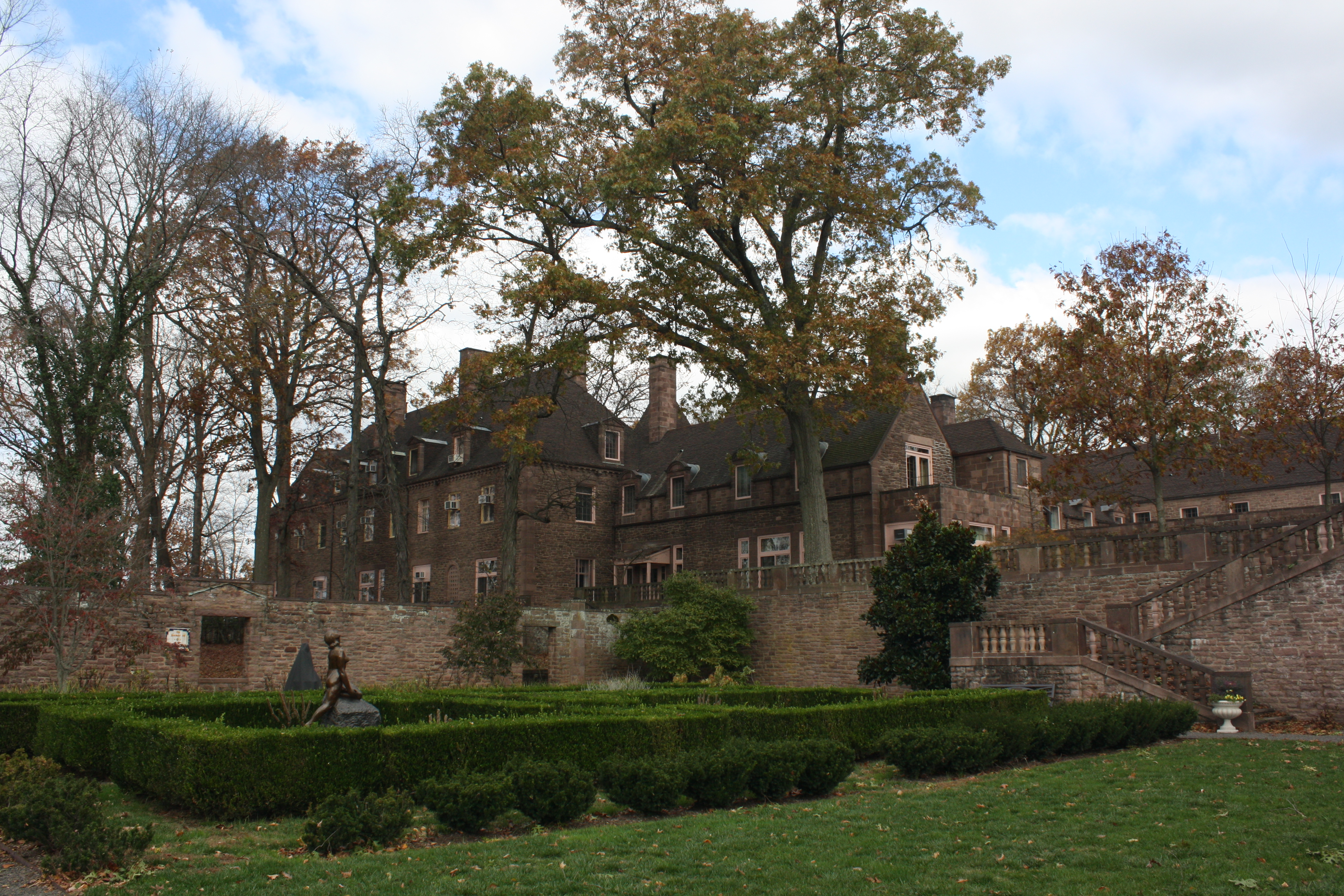 George F. Tyler Mansion, also known as the Residence at Indian Council Rock and Tyler Hall, is a historic mansion and national historic district located on the campus of Bucks County Community College at Newtown Township, Bucks County, Pennsylvania. Left wing, rear view from the park. Object location40° 14′ 22″ N, 74° 58′ 09″ W